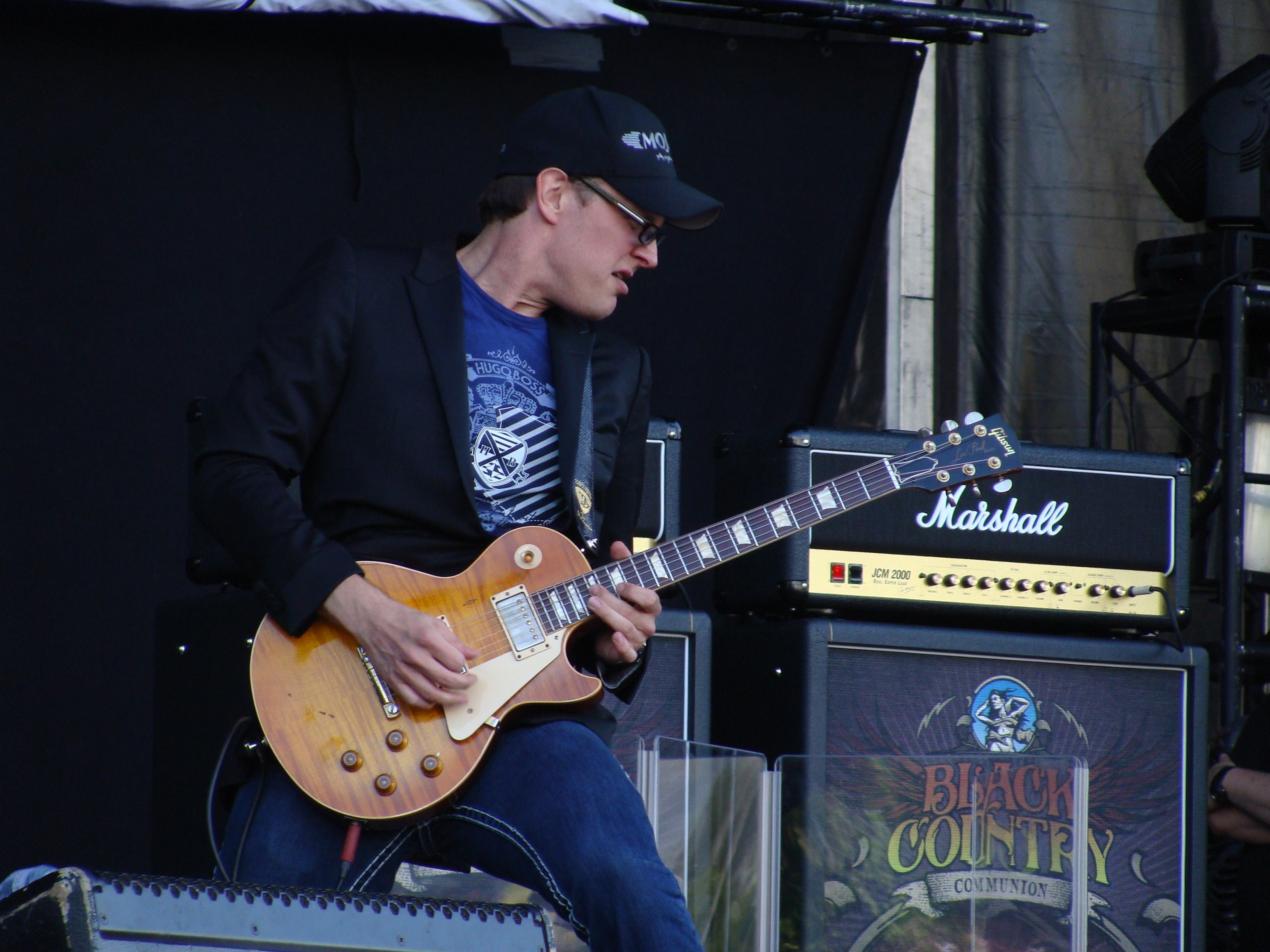 Joe Bonamassa of Black Country Communion